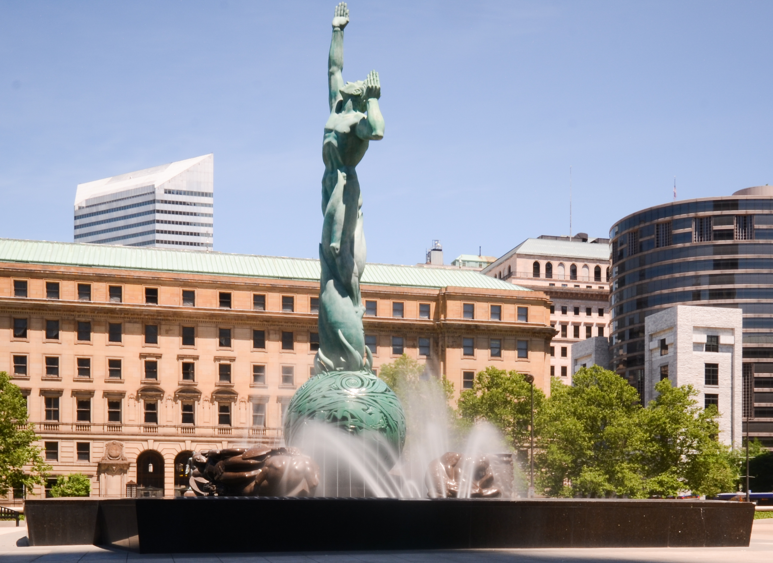 Fountain of Eternal Life